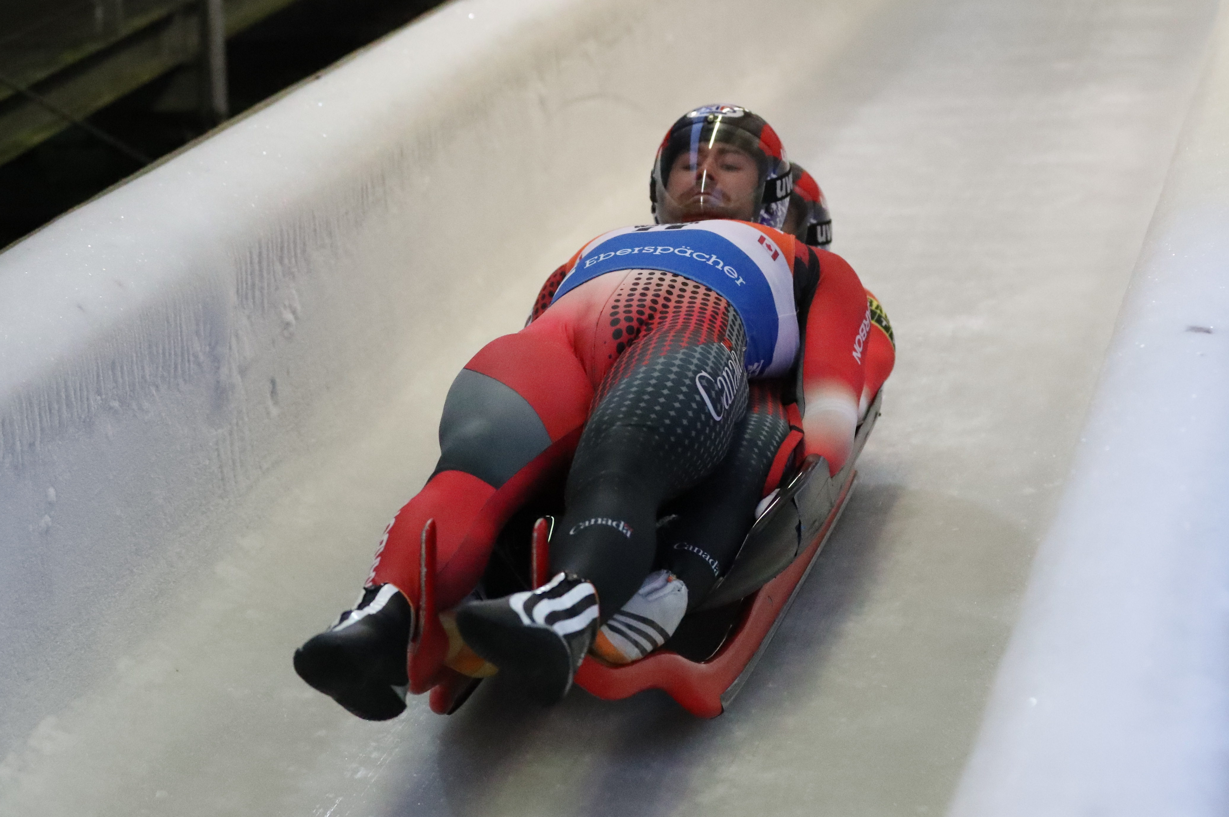 Friday training at the Luge World Cup Winterberg 2017: Tristan Walker, Justin Snith